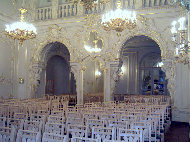 White Hall of the Vladimir Palace